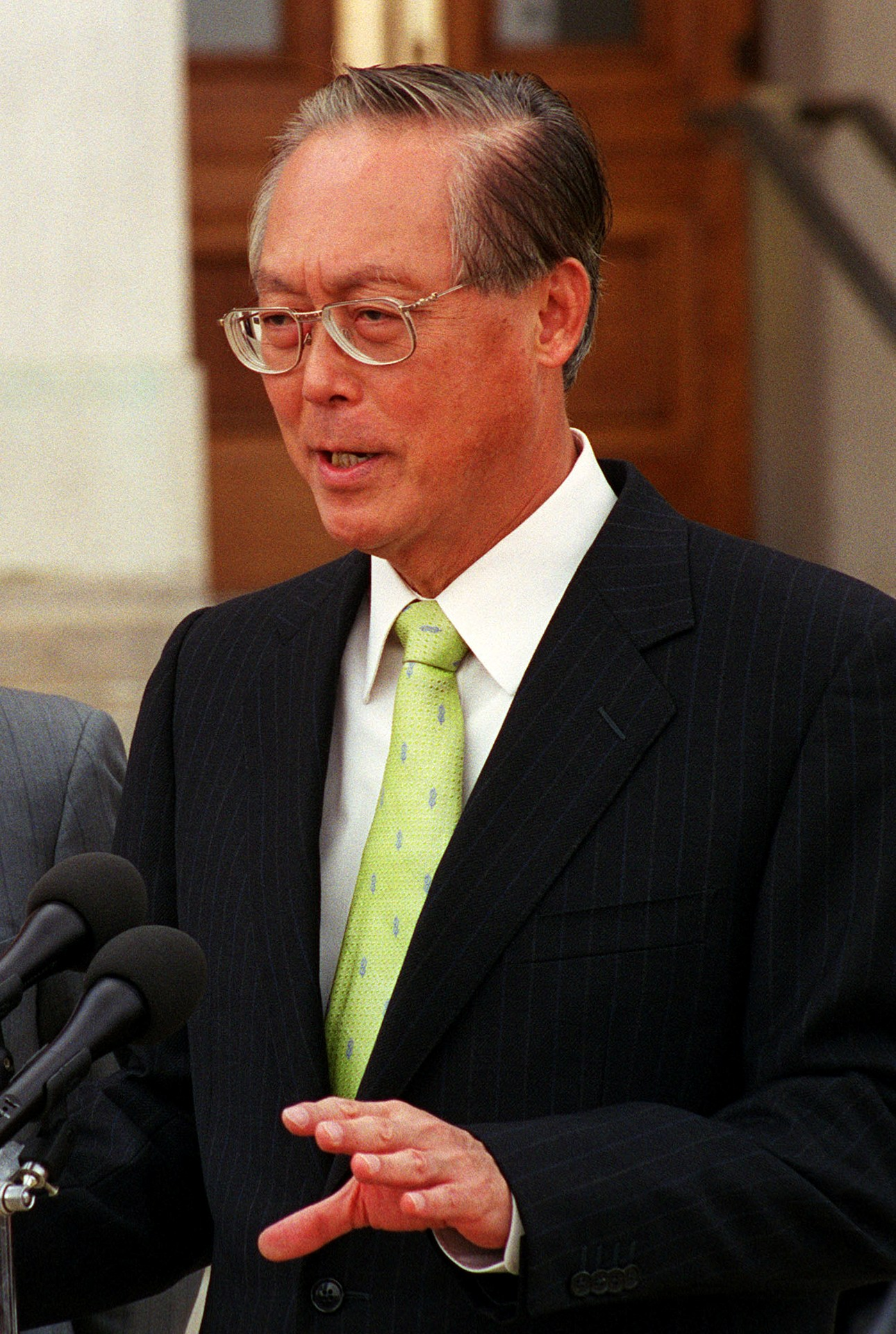 Singapore's Prime Minister Goh Chok Tong responding to a reporter's question during a joint press conference with United States Secretary of Defense Donald H. Rumsfeld outside the Pentagon. Goh, Rumsfeld and some of their top advisors met earlier to discuss a range of policy and security issues of interest to both nations. See DefenseLINK news photos. United States Department of Defense (2001-06-14). Retrieved on 2009-05-10.